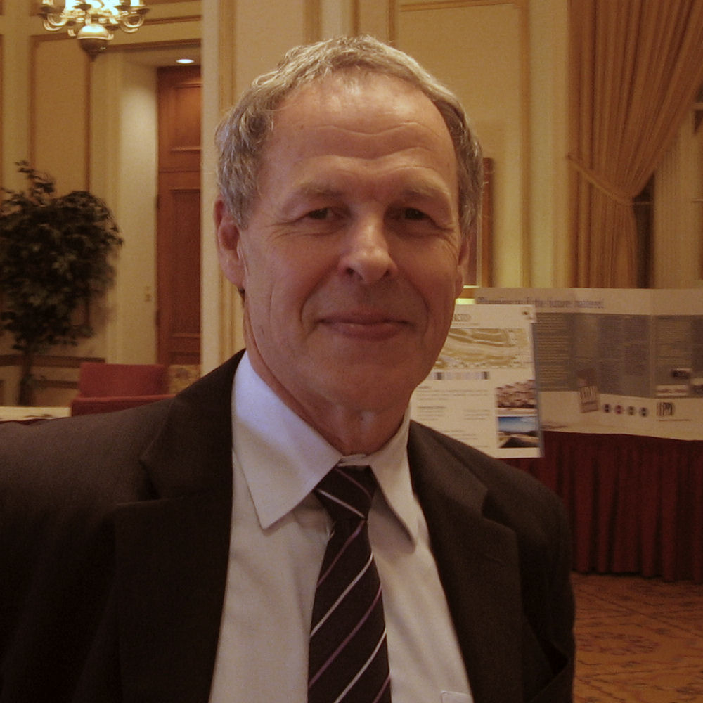 Informal portrait of Linden MacIntyre, made with the permission of the subject.